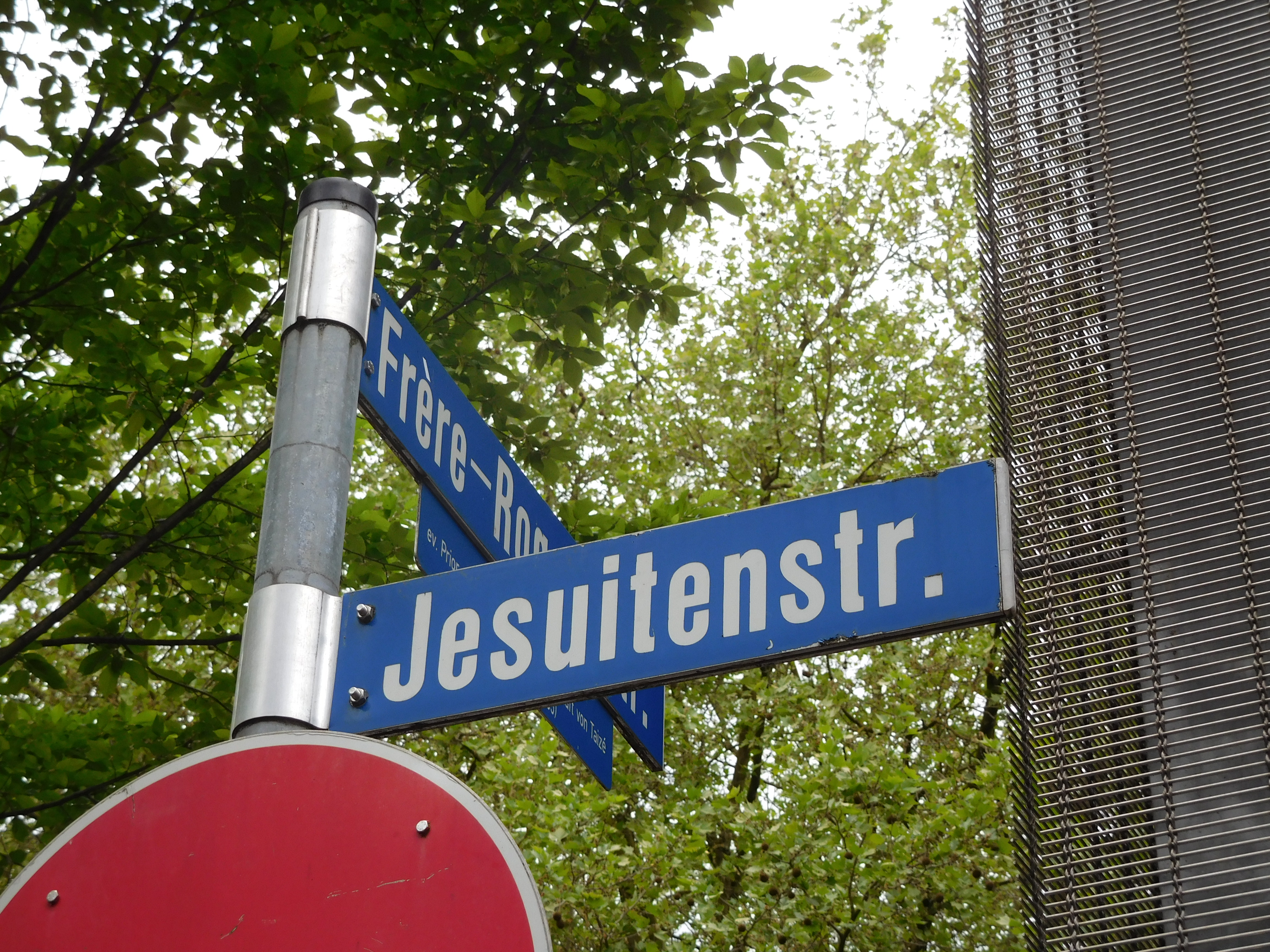 The 'Jesuitenstrasse' is near the St. Michael church, which used to be a Jesuit church